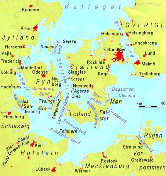 Straits named Belt or Sund in denmark and southern Baltic Sea. To keep the straits visible, only the longest bridges (orange), tunnels (dark blue) and dams (dark green) are marked